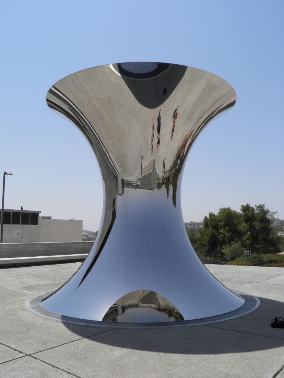 Anish Kapoor's "Turning the World Upside Down, Jerusalem", at the Israel Museum.